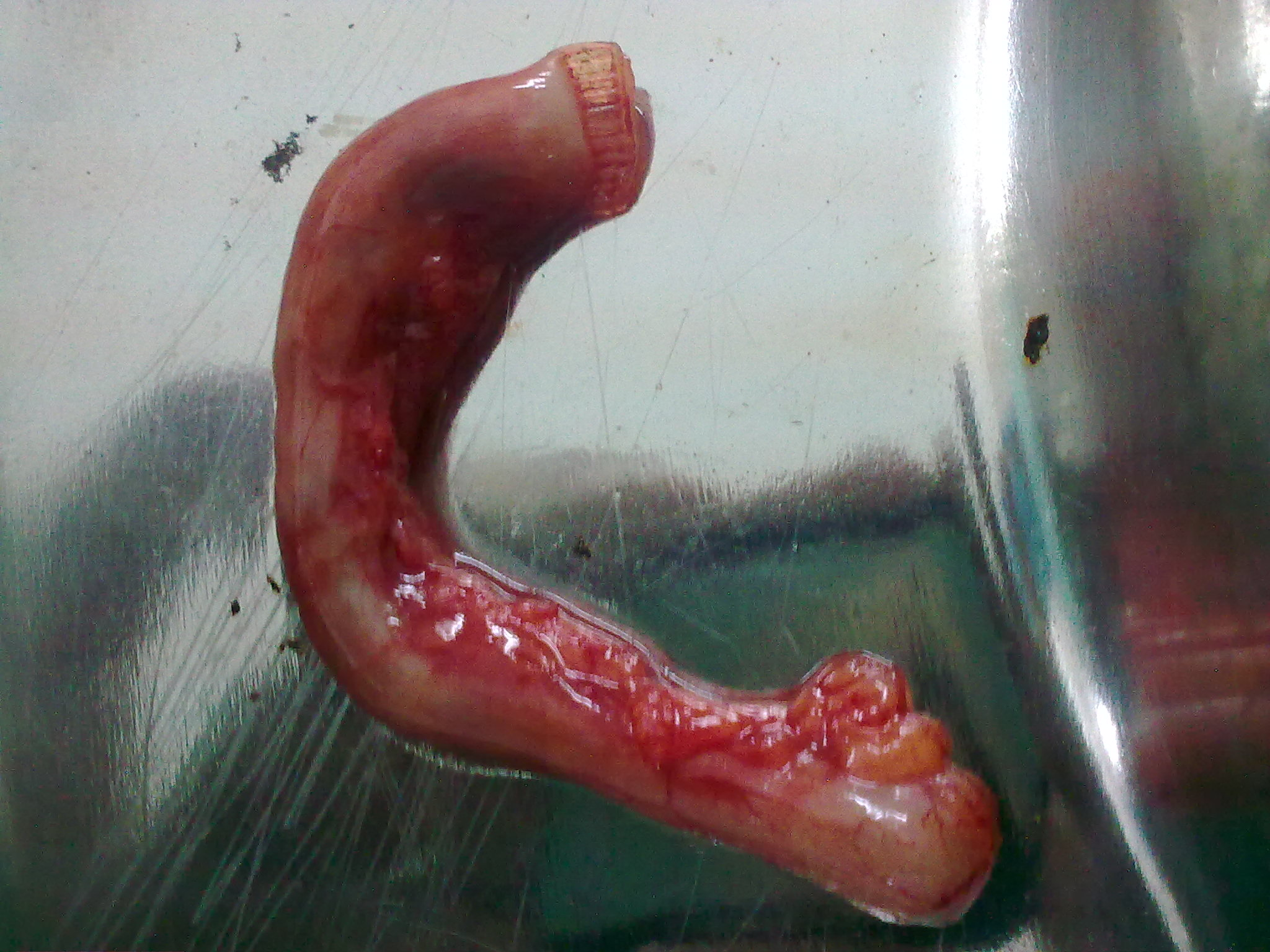 this is an image of vermiform appendix after its removal shot by digital camera.